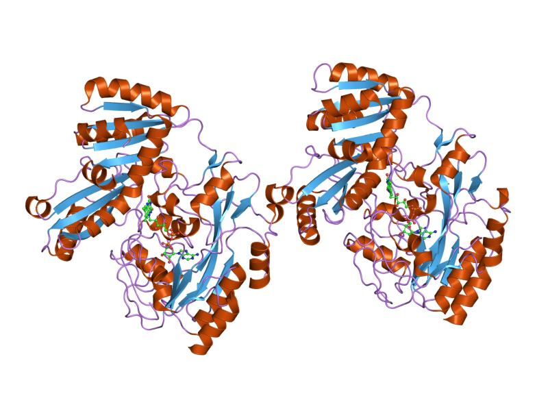 Cartoon representation of the molecular structure of protein registered with 1f0x code.